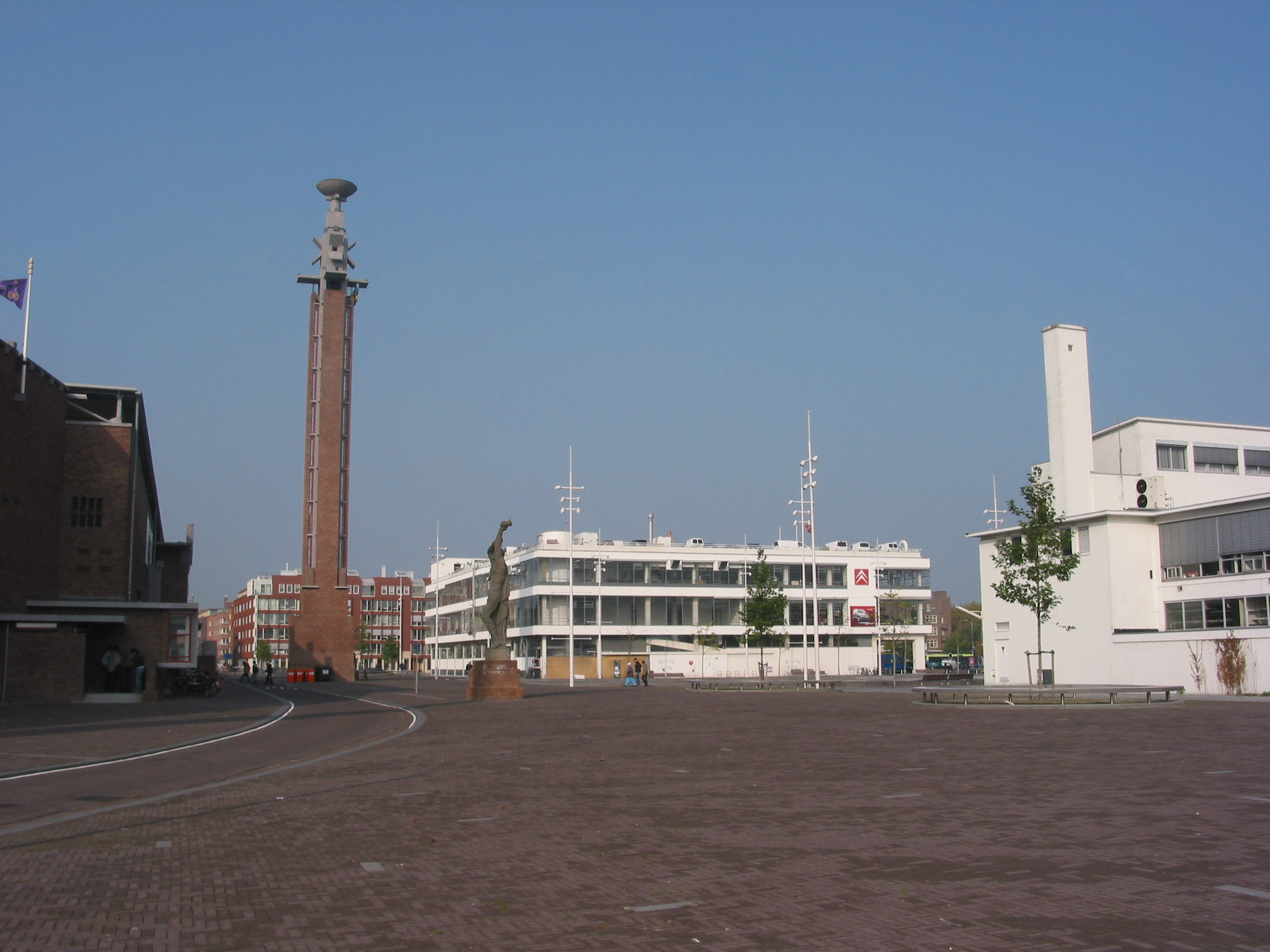 The Amsterdam Olympic Stadium.